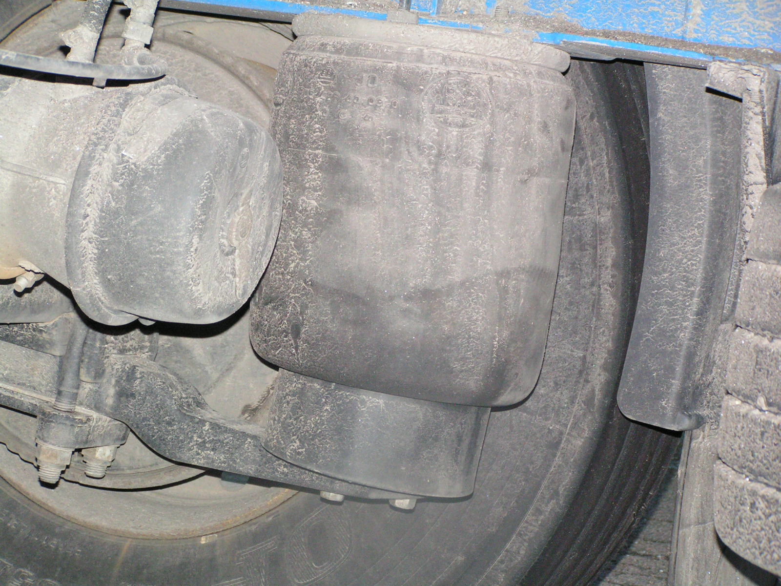 Pneumatic shock on a Krone semitrailer.